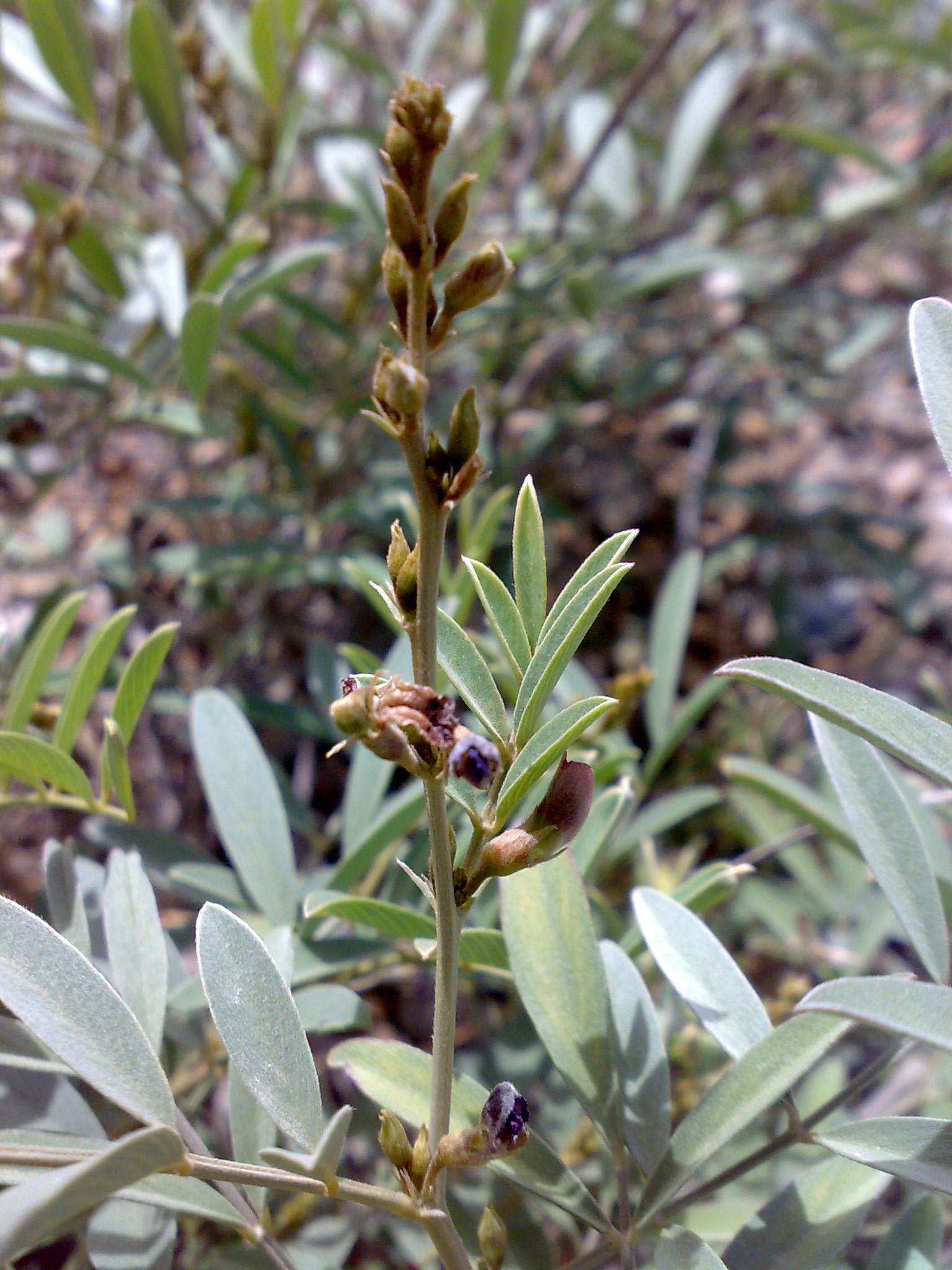 Tephrosia apollinea in the semi-desert north of Fujeirah City, Indian Ocean coast, United Arab Emirates.